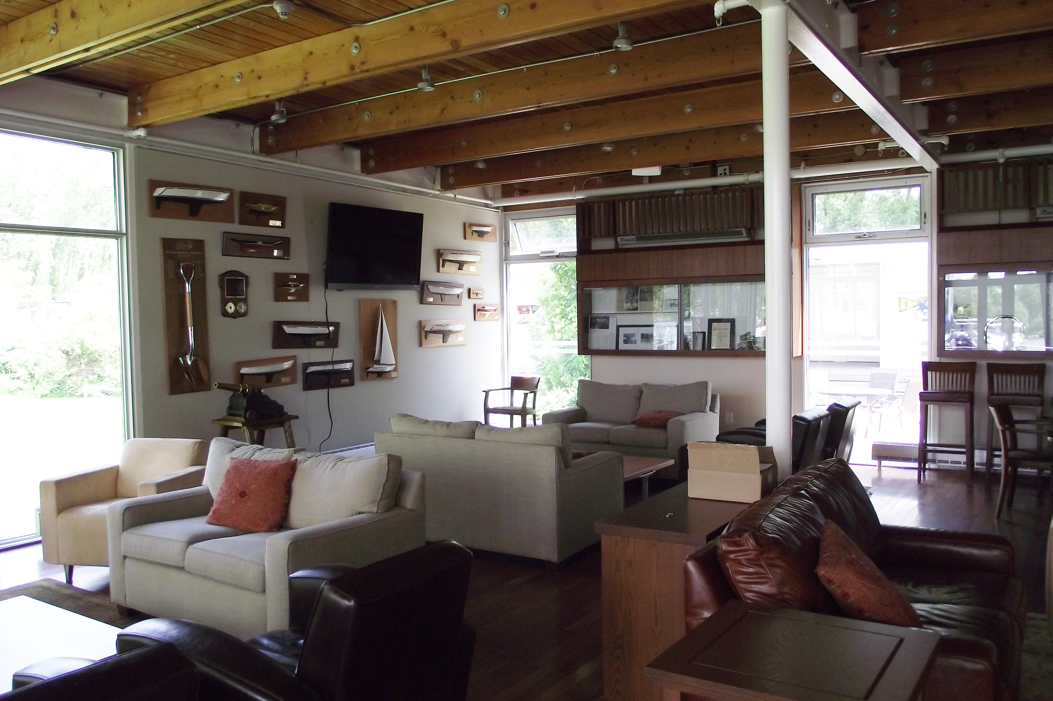 Inside the IYC clubhouse